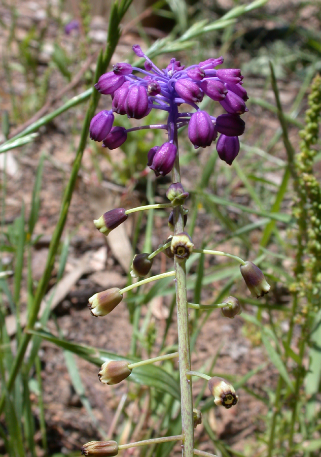 Leopoldia bicolor (Boiss.) Eig & Feinbrun (מצילות החוף), Ya'ar Kadima, Sharon, Israel, April 4, 2007.